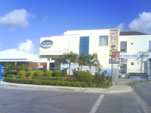 The WIBISCO facility on Gills Road, Bridgetown, St. Michael.